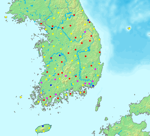 A map of the Korea Meteorological Administration (Weather service of South Korea)